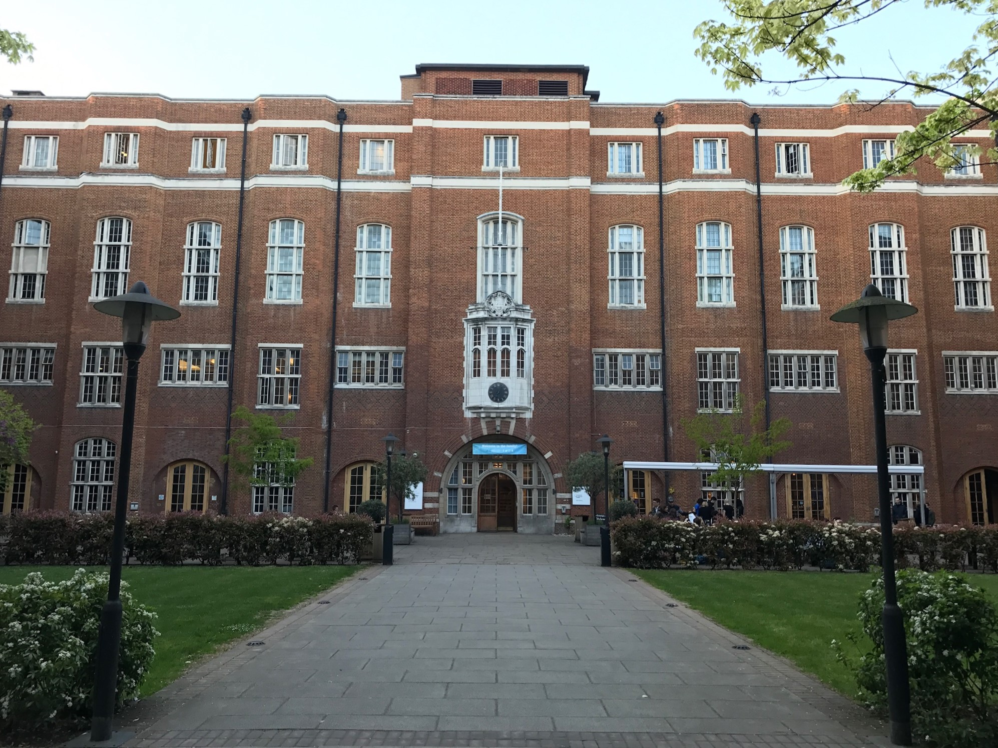 Beit Quad, Imperial College Union.